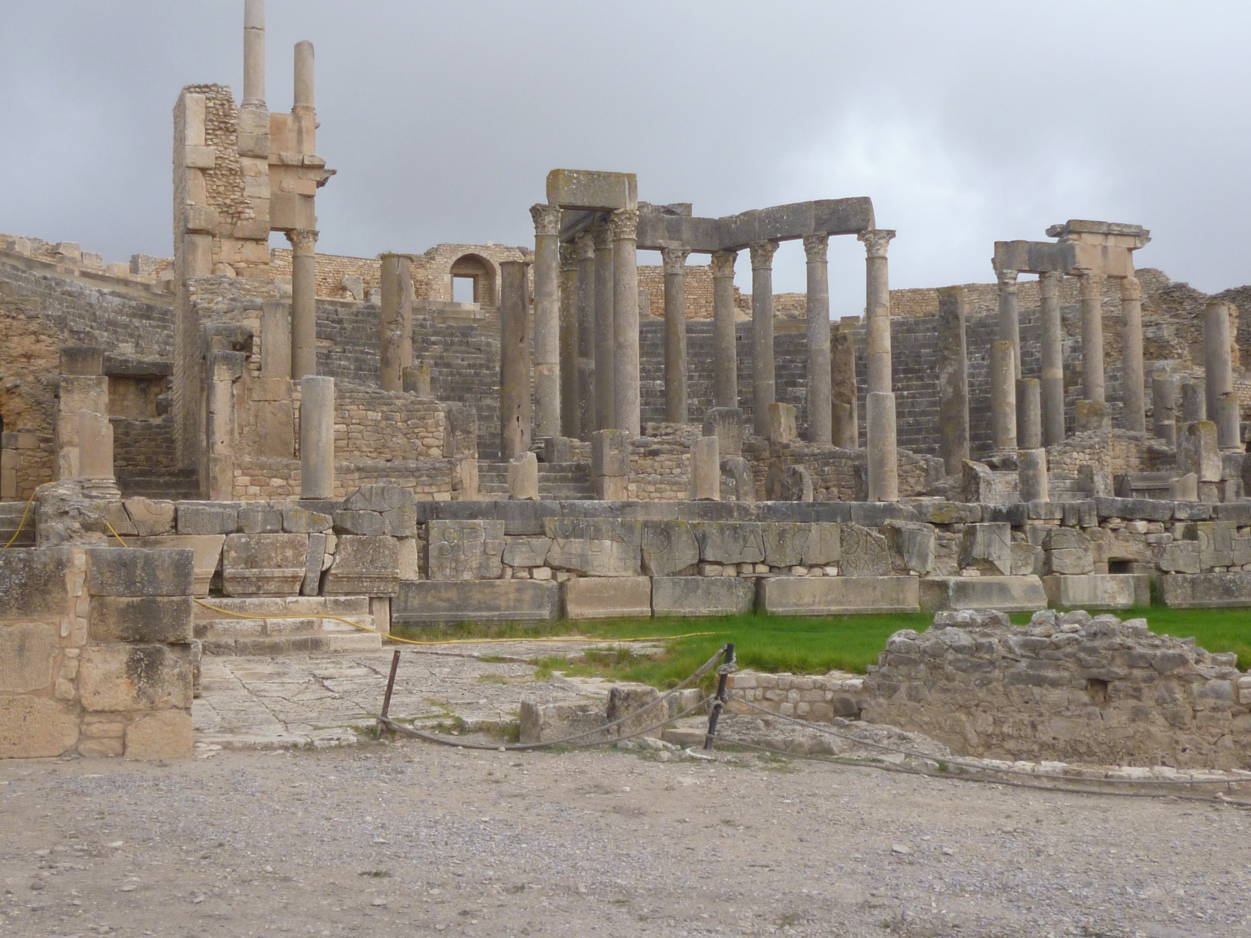 Dougga Thugga (Tunisia)